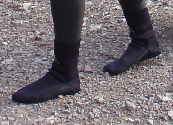 Wetsuit boots.